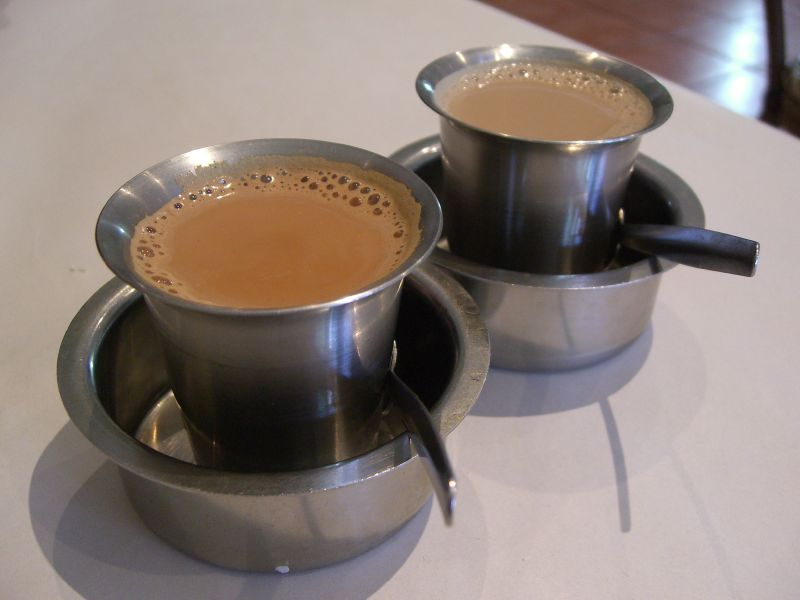 Masala Tea and South Indian Filter Coffee - Chennai Banana Leaf, Syndal AUD2.50 each Masala tea is also known as Chai or Masala Chai. This version had strong cardamom flavours, which i liked, but reminds Julia of the dentist! :P The coffee wasn't very strong, but had a lot of evaporated milk, which made it quite thick.